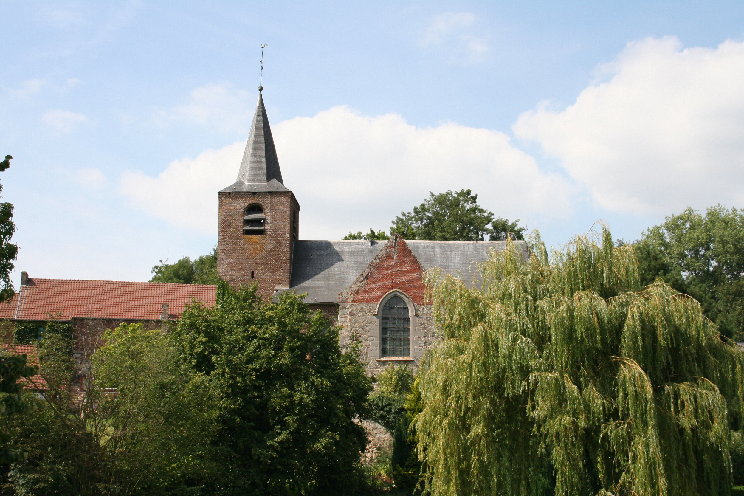 Bougnies (Belgium), the St. Martin’s church (XVIth century).